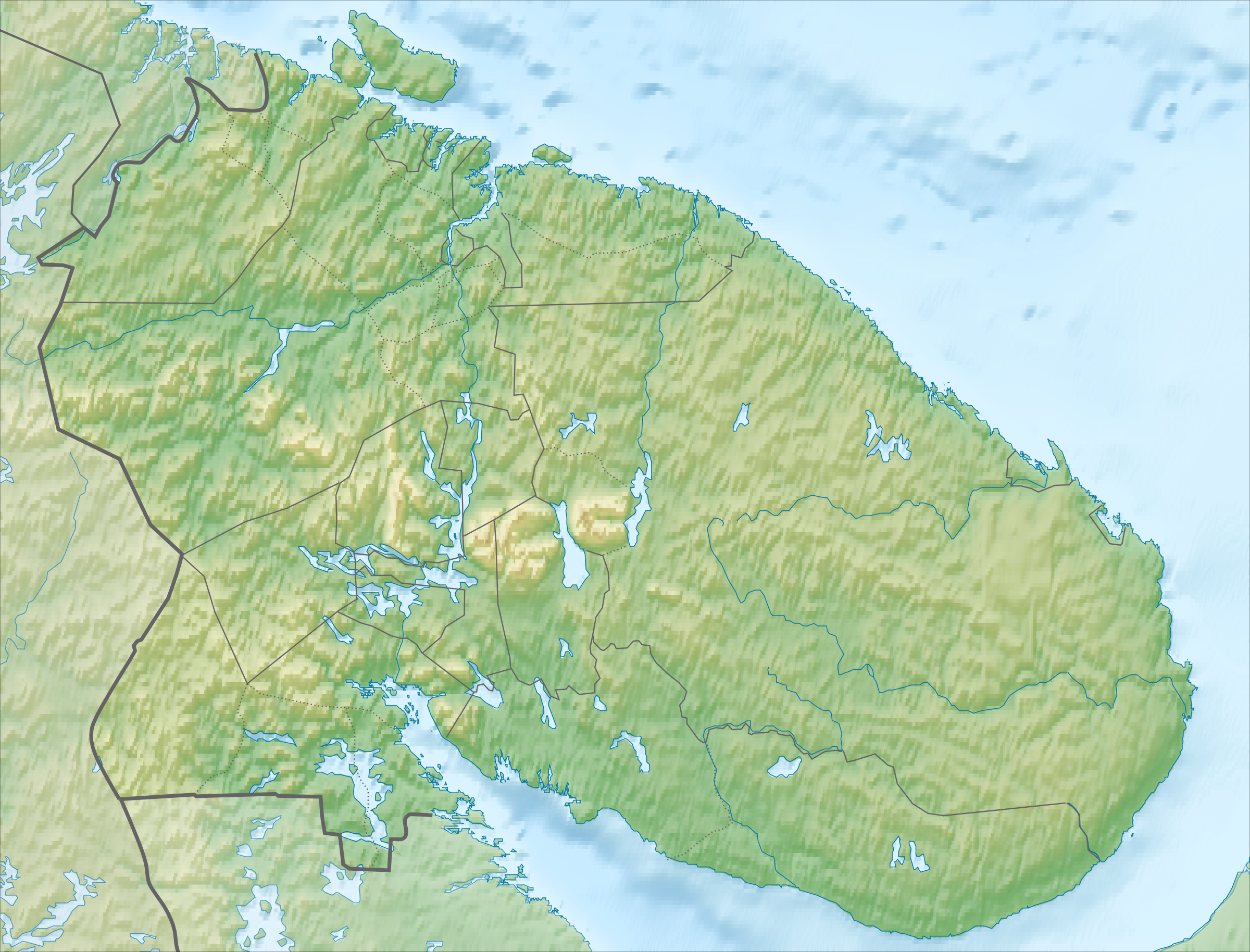 Murmansk_region_relief_location_map Equirectangular projection, N/S stretching 256 %. True scale parallel: 67°00' N. Geographic limits of the map: N: 70.0° N S: 66.0° N W: 28.0° E E: 42.0° E